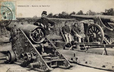 Postcard with photograph of Mortier de 220 mm de Bange (left) and Canon de 155 long (right). Batterie de Saint-Cyr, Yvelines, on the western outskirts of Paris.